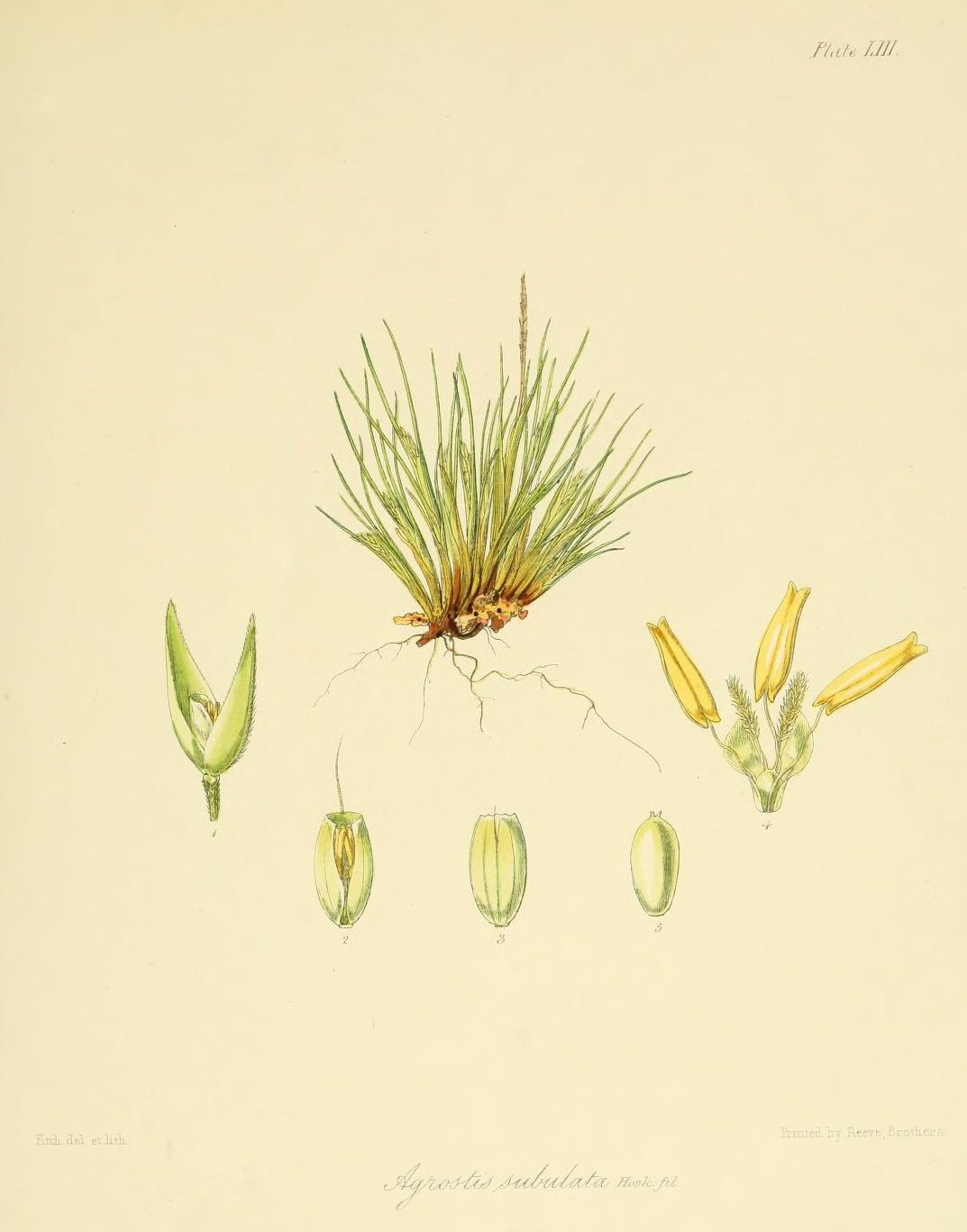 jpg of Plate LI of Hooker's Flora Antarctica. Agrostis subulata Hook fil